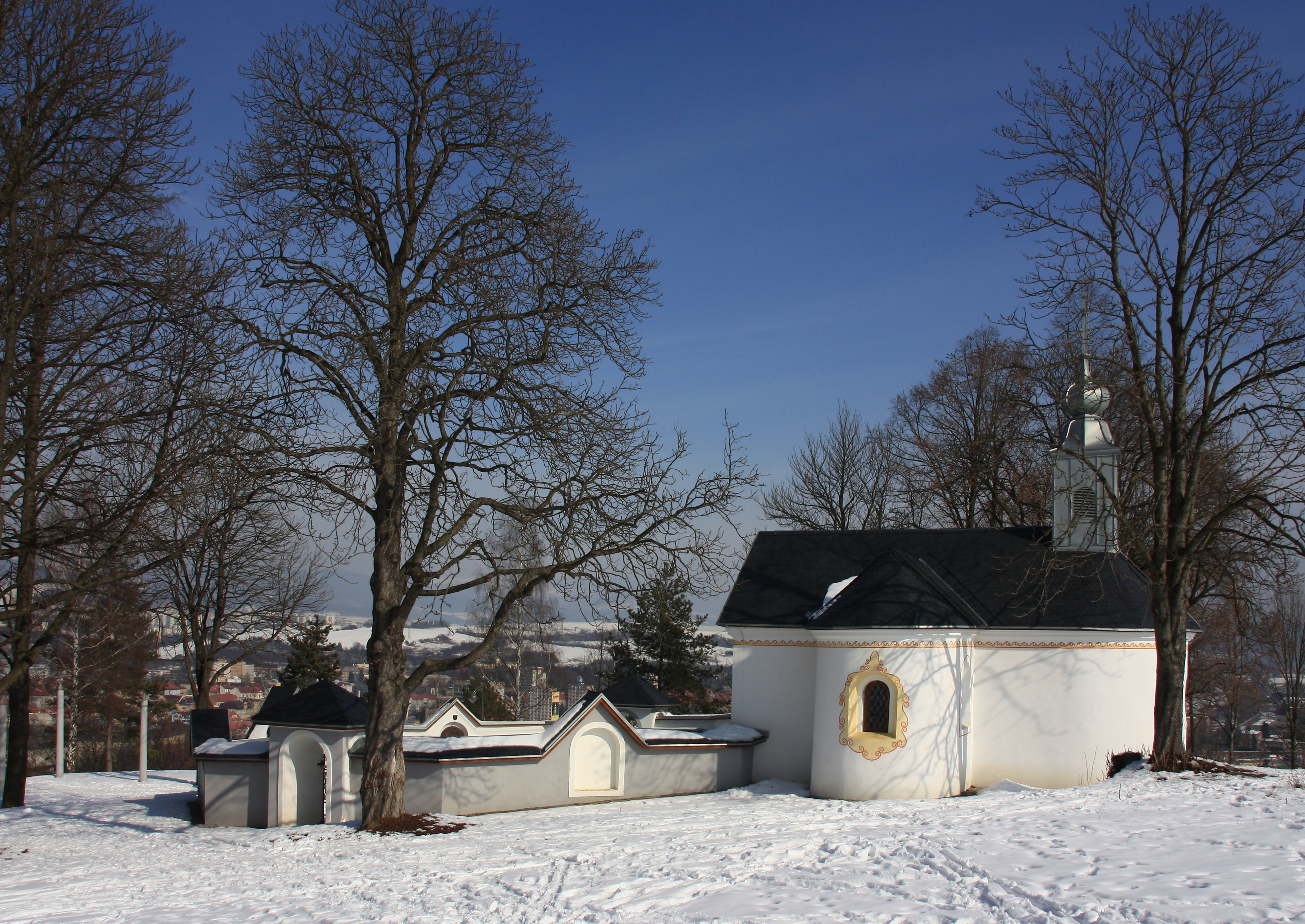 Calvary in Banská Bystrica, Slovakia